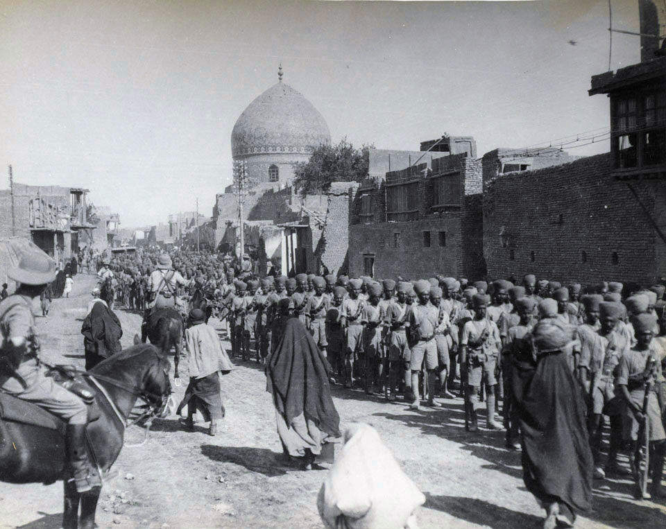 In December 1916 the British commander in Mesopotamia, Lieutenant General Sir Stanley Maude, left Basra with an Anglo-Indian force of some 50,000 men, including two Indian Corps, for an offensive up the Tigris River to Baghdad. Maude spent two months eliminating Turkish detachments south of the river. On 17 February he commenced a series of manouevres against the fortress of Kut-al-Amara which forced the Turks to evacuate it eight days later. On 4 March Maude reached the Turkish defences on the Diyala River, 16km south of Baghdad. Here he deployed his men so skilfully that the Turks were forced to abandon their lines without a major fight, whereupon they withdrew to the north of Baghdad. On 11 March the British forces marched into the city.